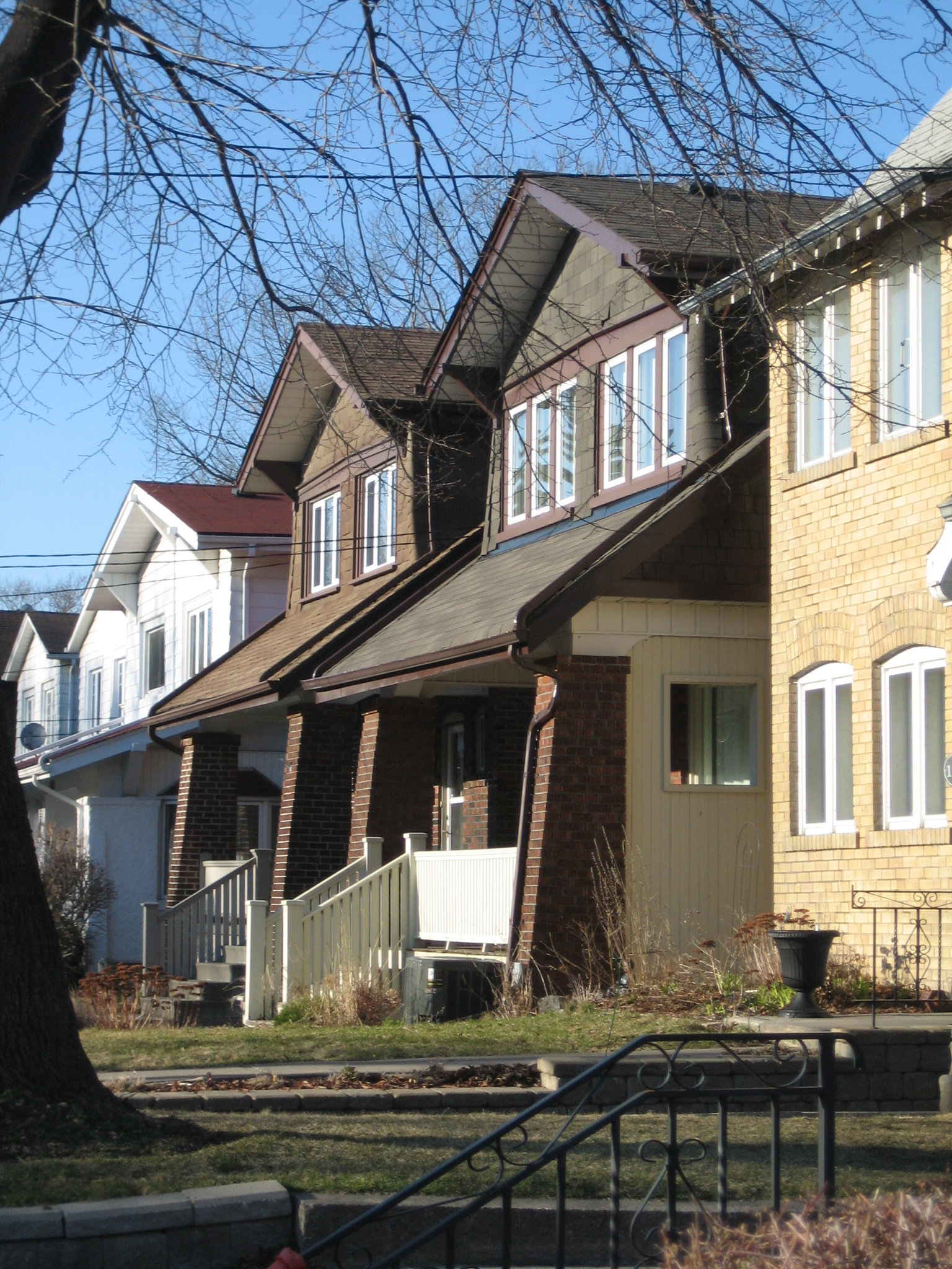 House in the Uppper Beaches area of Toronto